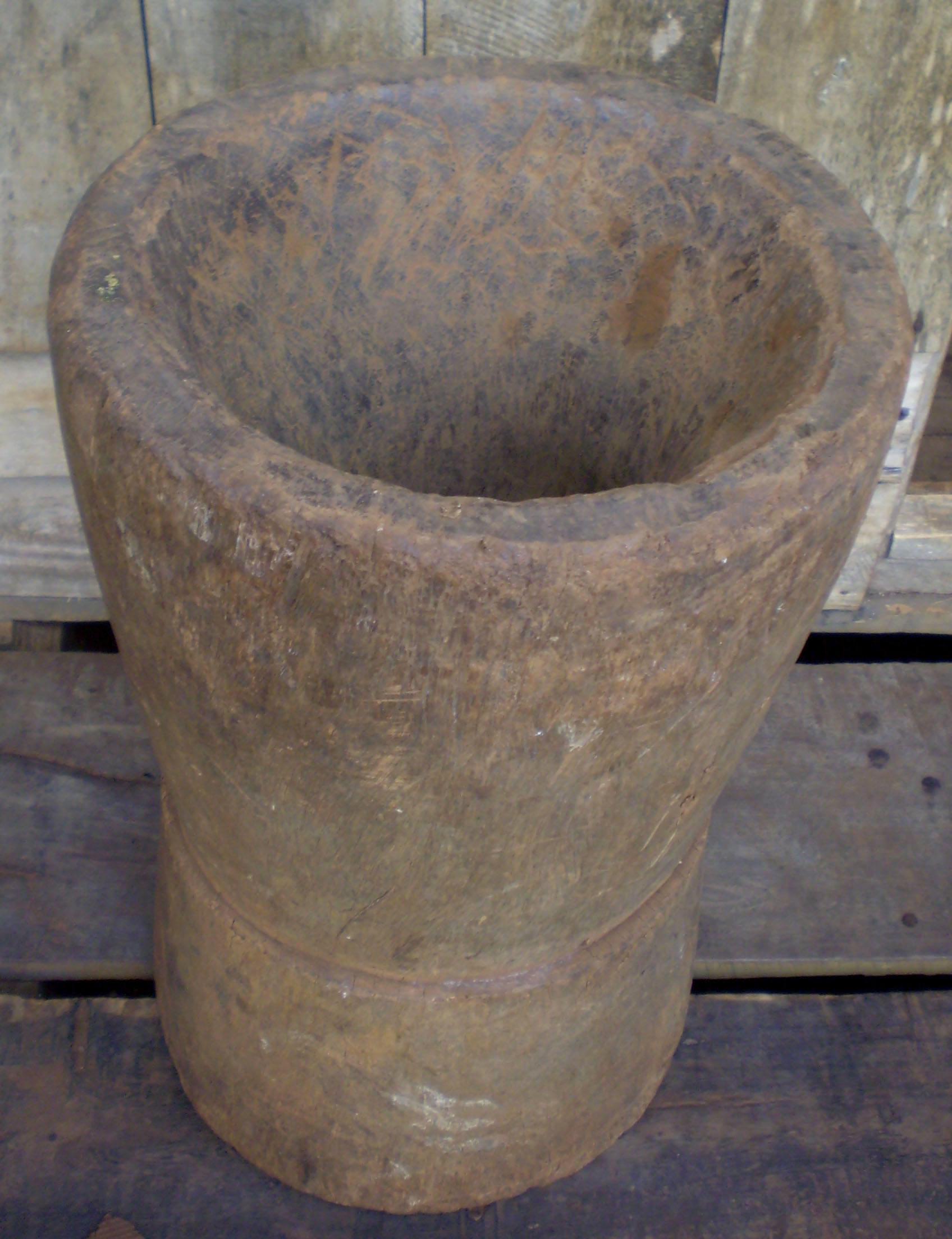 The hardwood mortar of Ede person